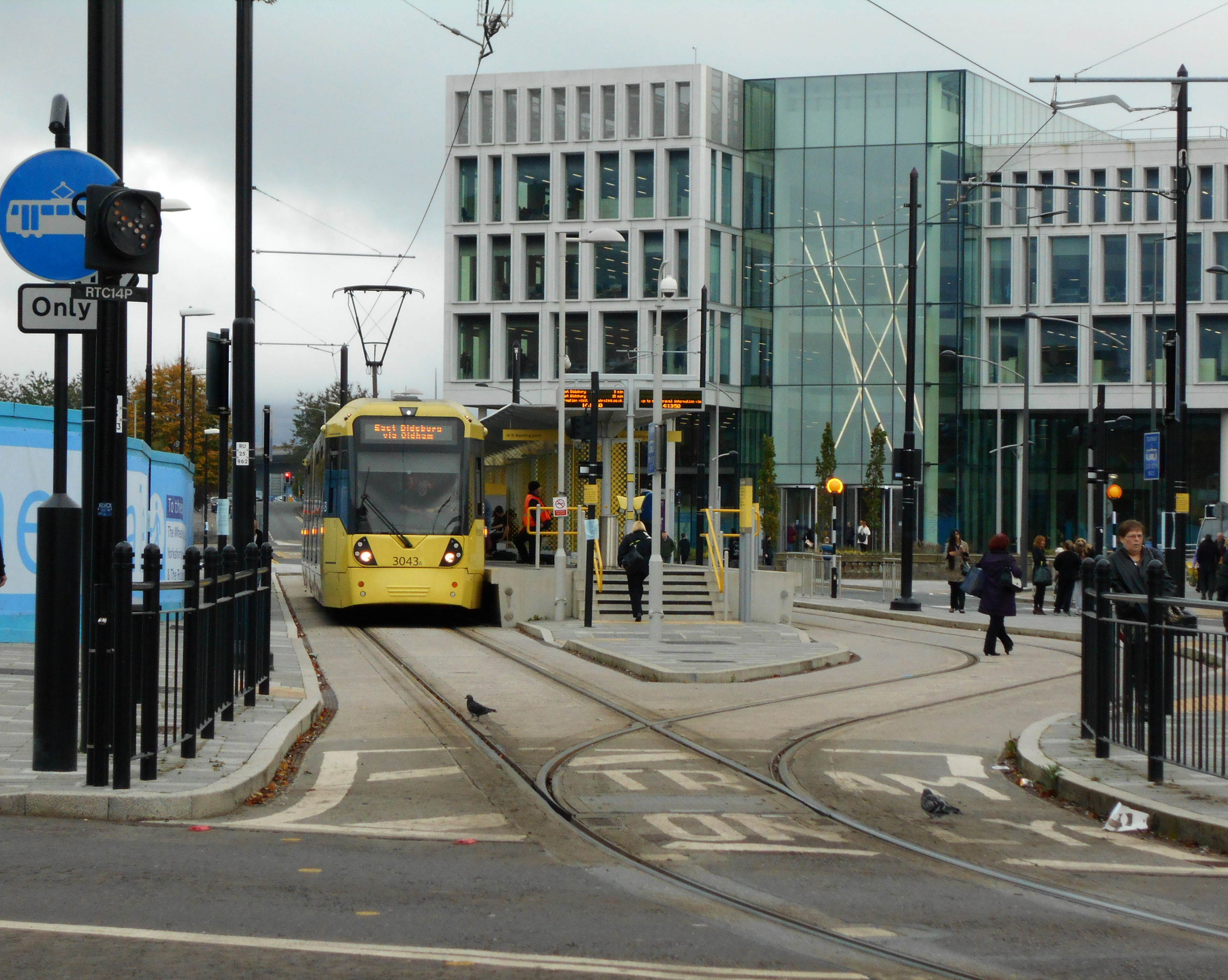 Rochdale Town Centre tram stop